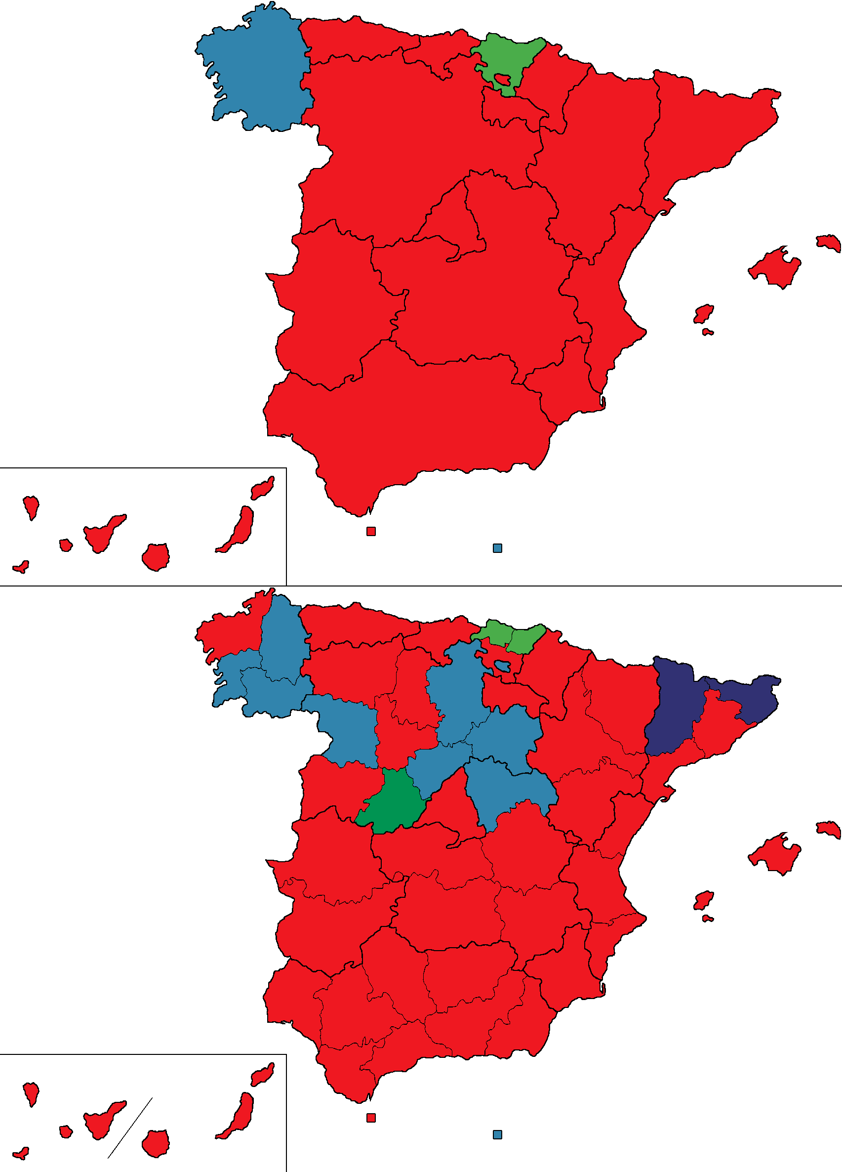 Most voted party in the 1986 Spanish Congress of Deputies election by autonomous communities and provinces.